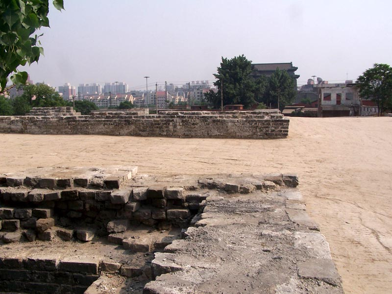 ruins of Beijing City Wall near the Southeast Corner Tower